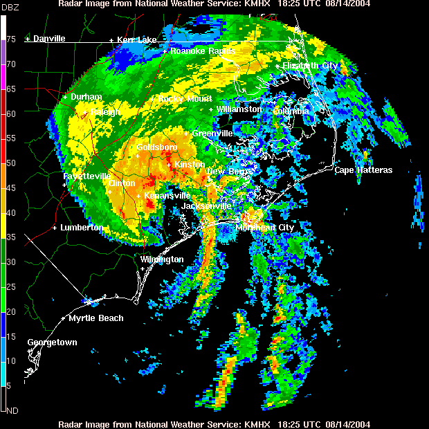 Radar image of Hurricane Charley in 2004 moving ashore on the Carolinas